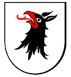 coat of arms city of Filisur (Switzerland)